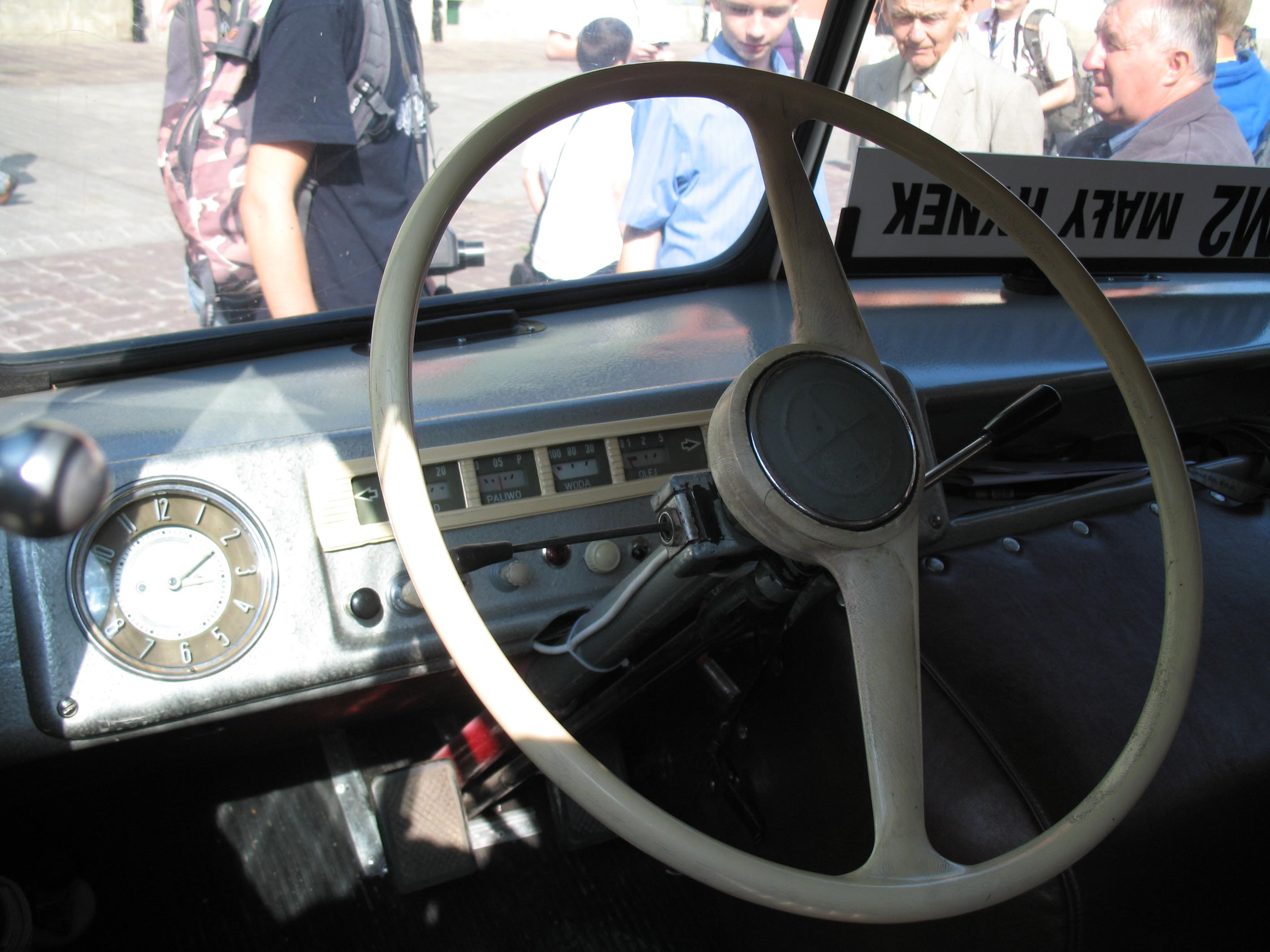 Nysa N59M microbus (#28) inside (cockpit) in Kraków, Poland. Built 1959, MPK Kraków operator.